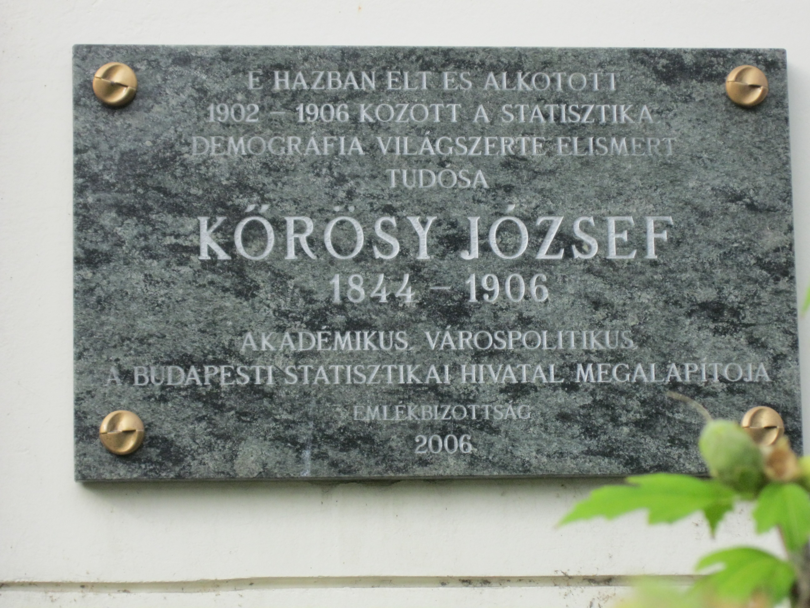 József Kőrösy commemorative plaque in Budapest District VI, Délibáb Street No 30.